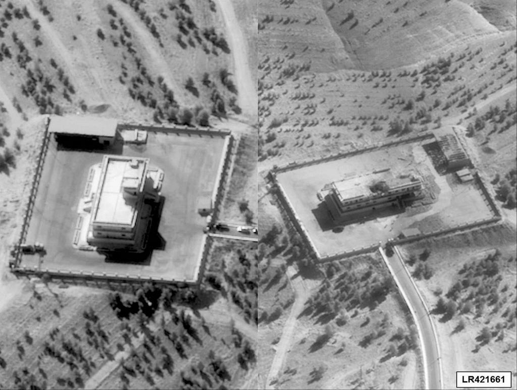 Photo shows before and after photos of IS command center targeted by F-22 Raptor.